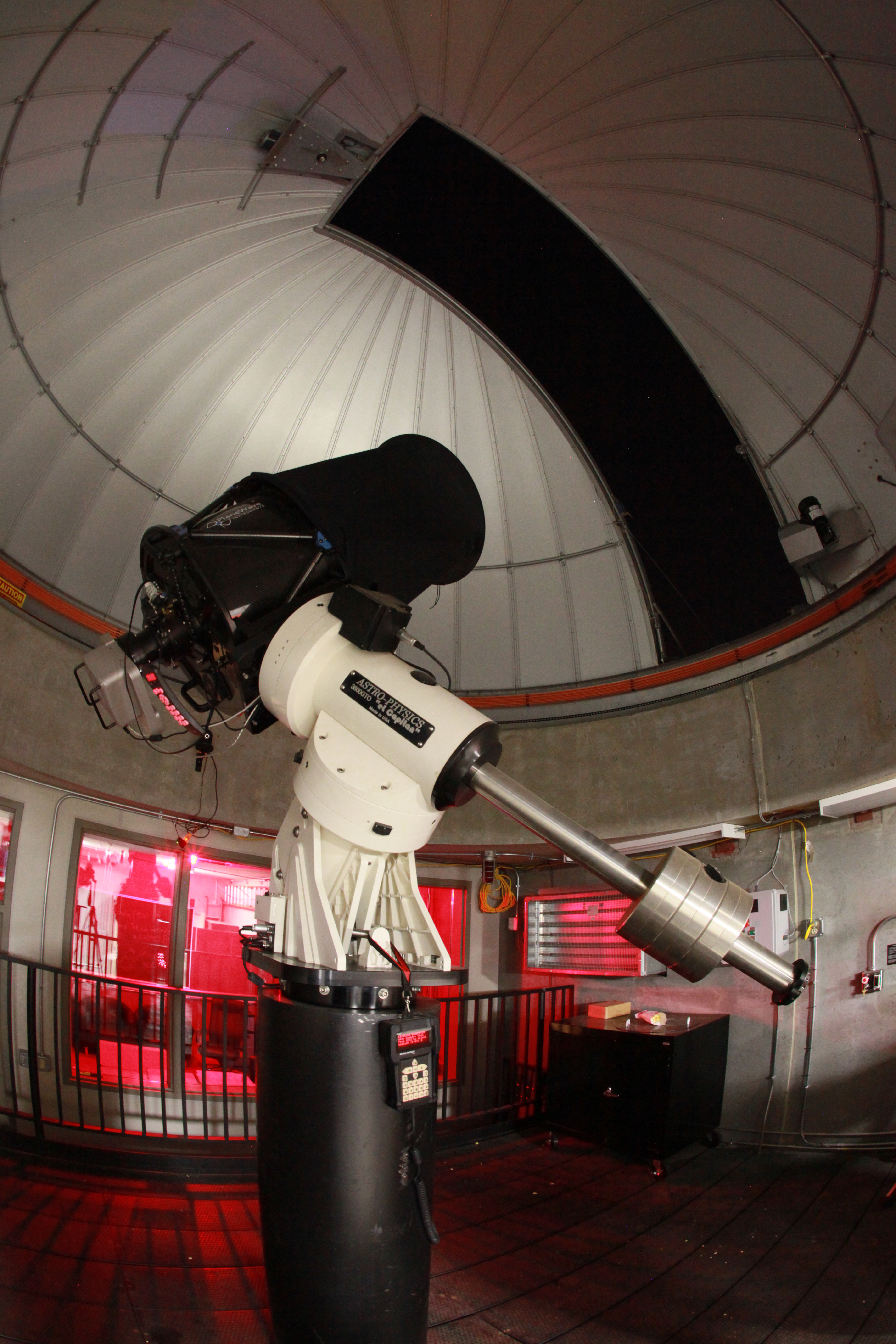 The 17" reflecting telescope inside the automated dome at the University of St. Thomas Observatory, St. Paul, MN, USA.